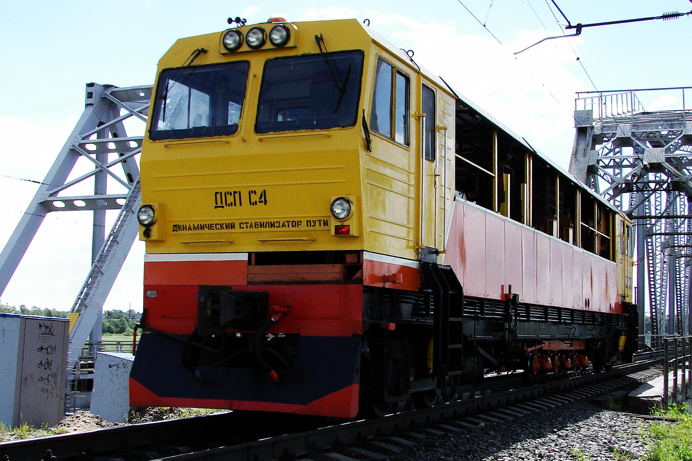 Russia, Vologda, MoW dynamic stabilizer